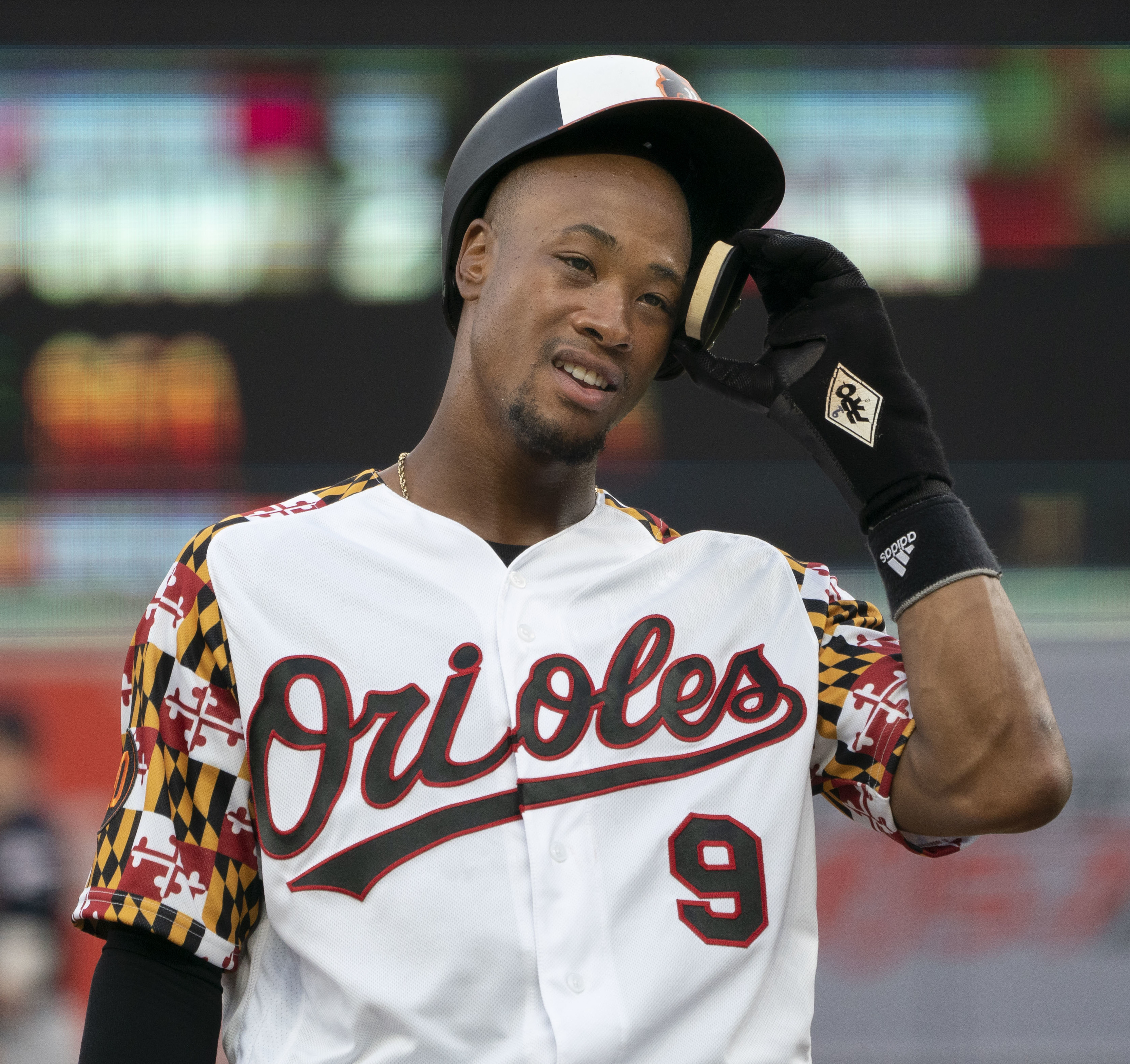 Keon Broxton with the Baltimore Orioles during a 2019 game at Camden Yards in Baltimore